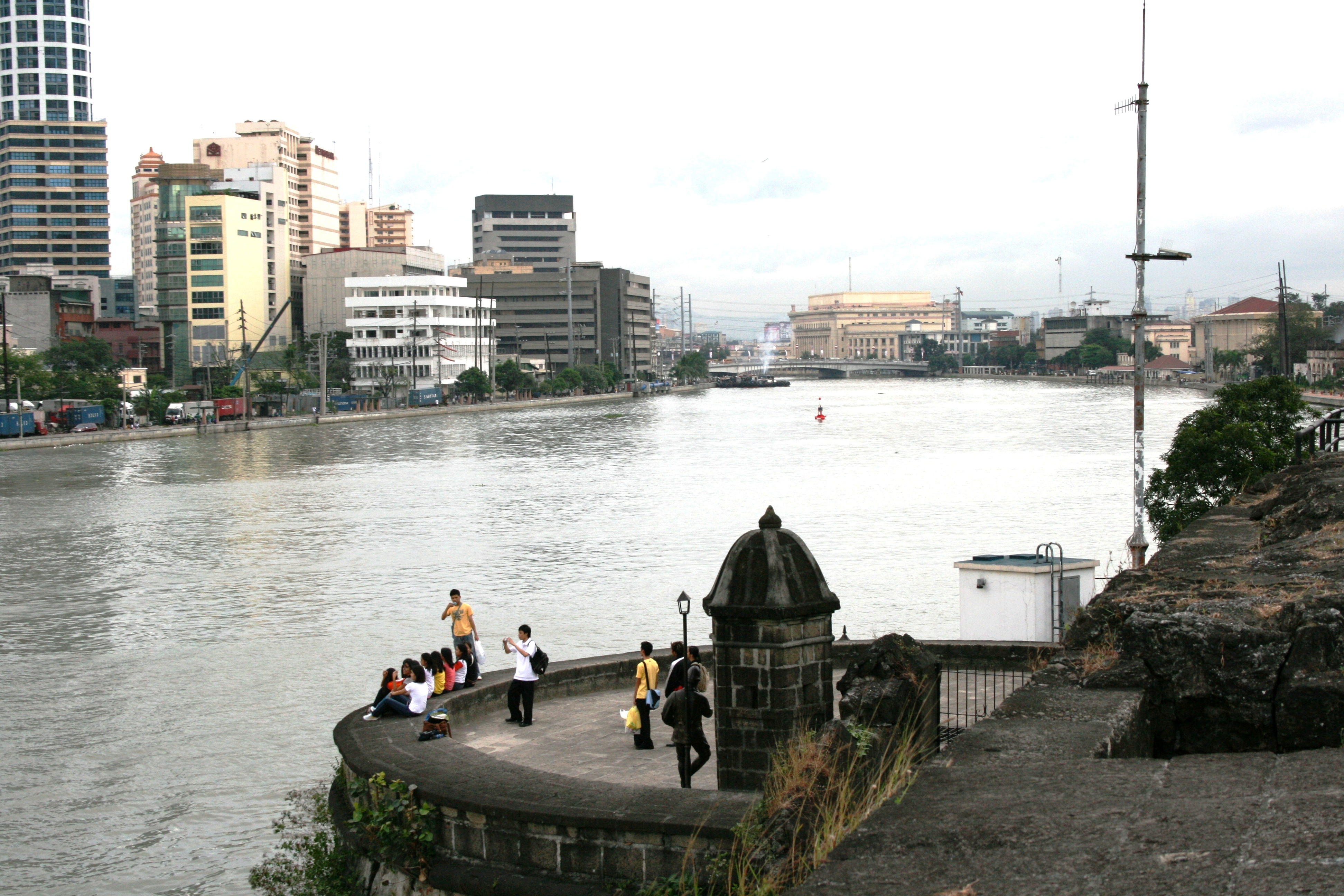 View of the Pasig from Intramuros, showing the Jones Bridge and Manila Post Office